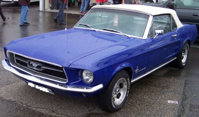 Ford Mustang 1967